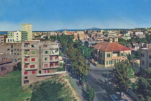 A weiw of the Syrian city of Latakia in 1970.